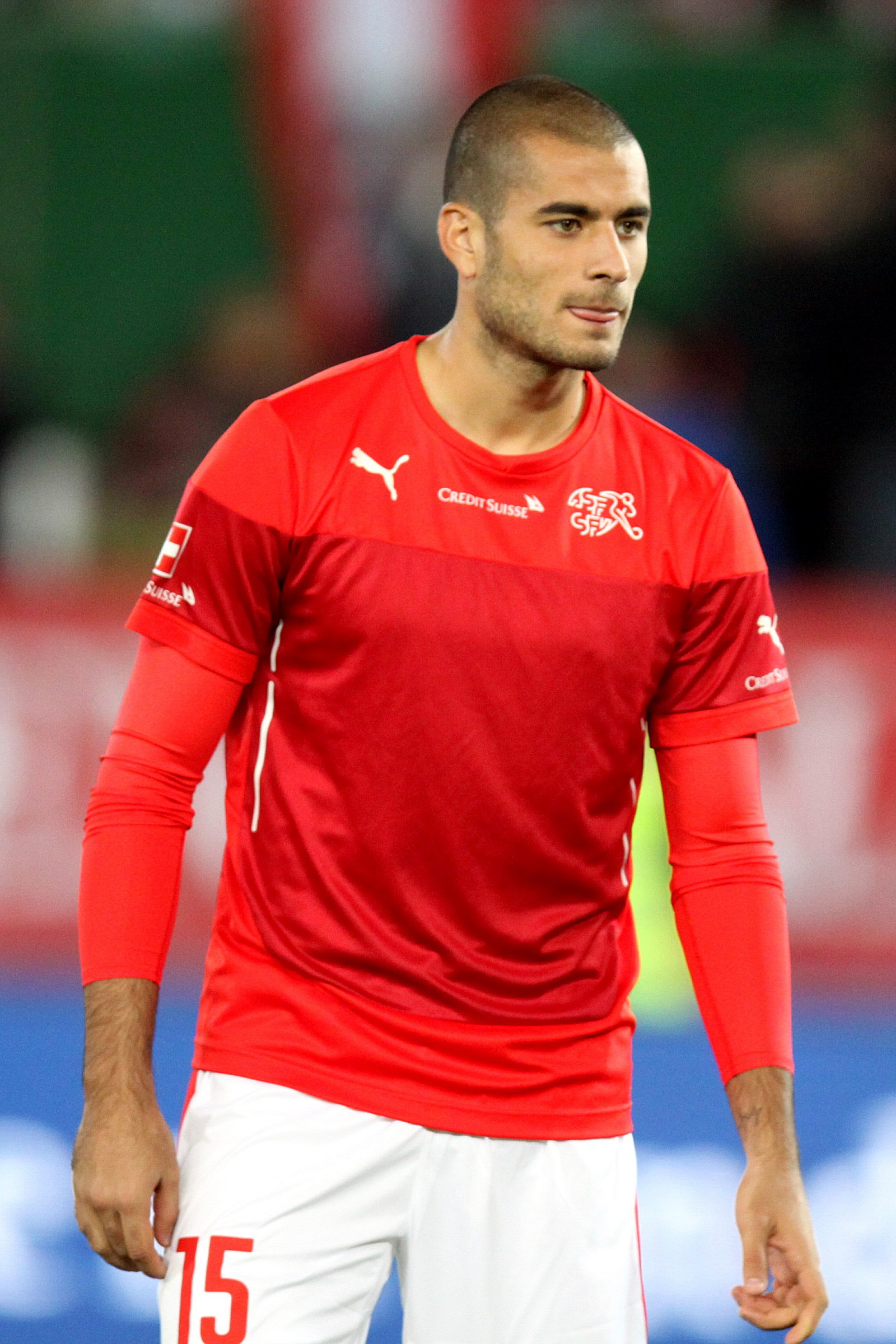 Friendly match – Austria (red shirts) vs. Switzerland (white shirts) 1-2 (1-2) – 2015-11-17 in Vienna, Ernst-Happel-Stadion – The photo shows Eren Derdiyok (Switzerland).